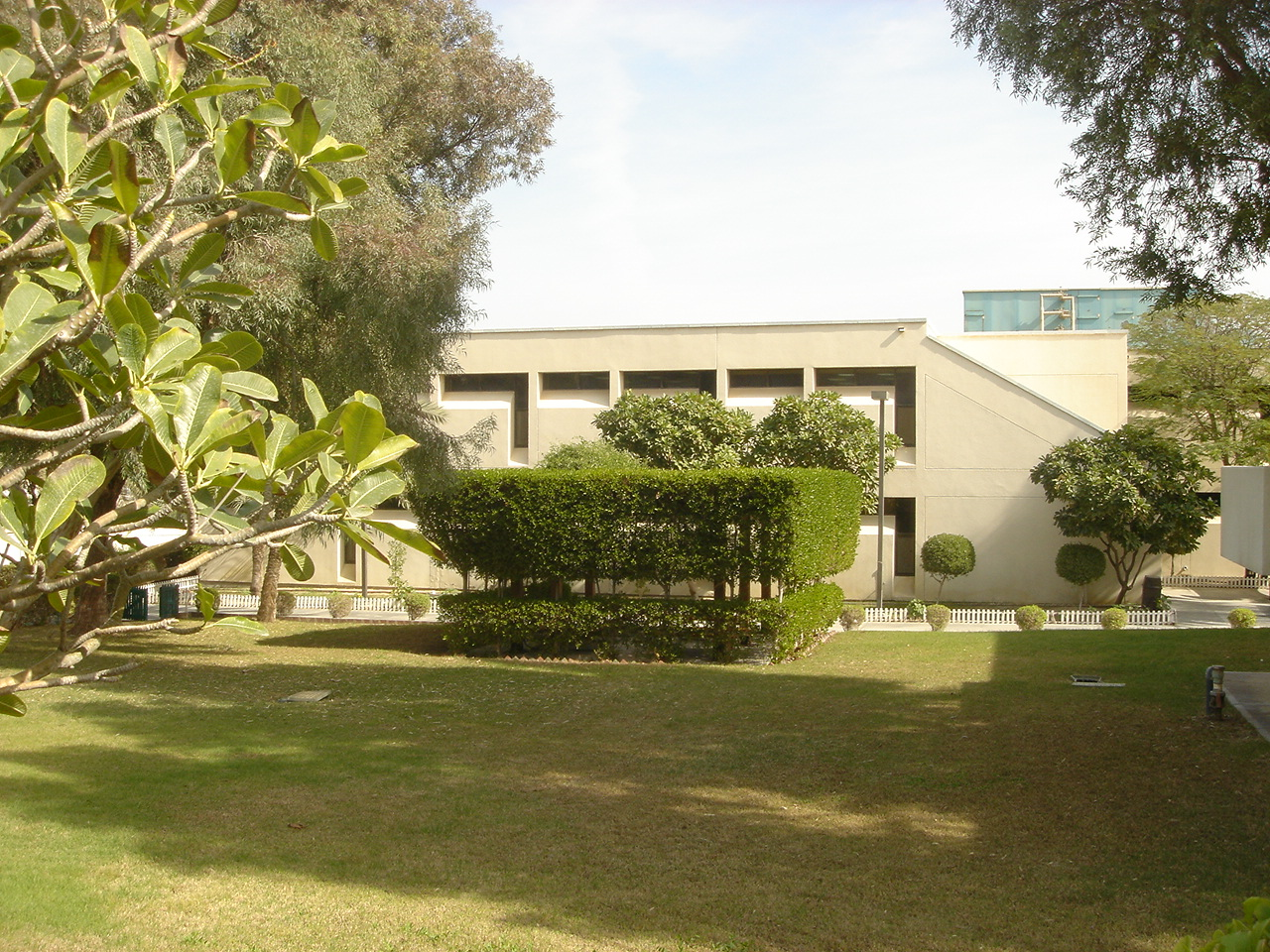 College Preparatory Center lawn, Building D appears in the background.